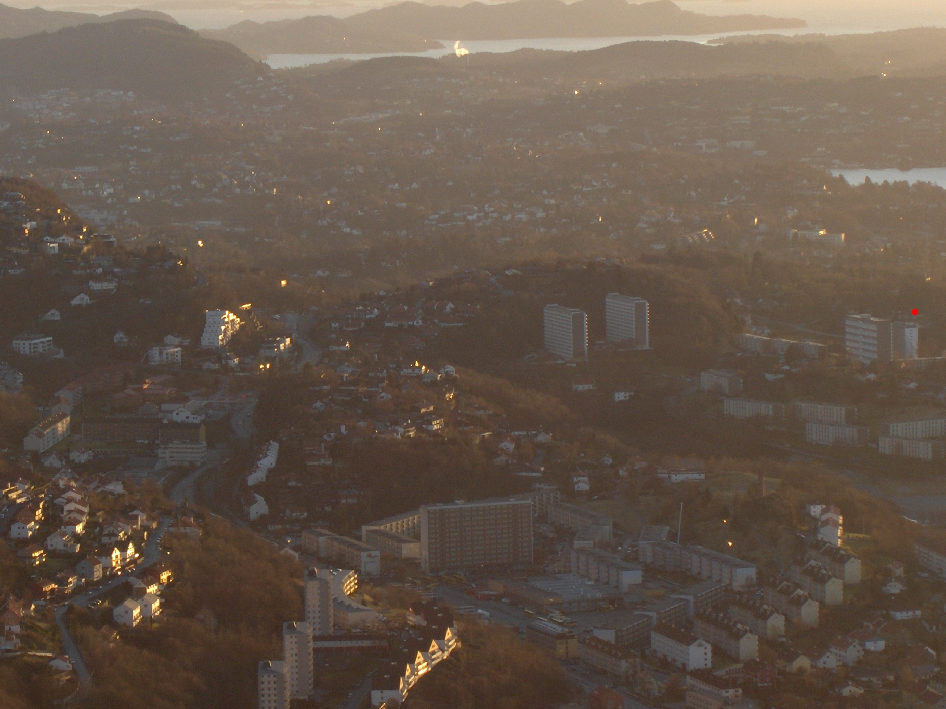 Bergen valley towards the south, from ulriken. Fantoft student hostel is zoomed and spotted with a red point I, Thomas Moine, author of this picture, let it in public domain. ALL RIGHTS RELEASED